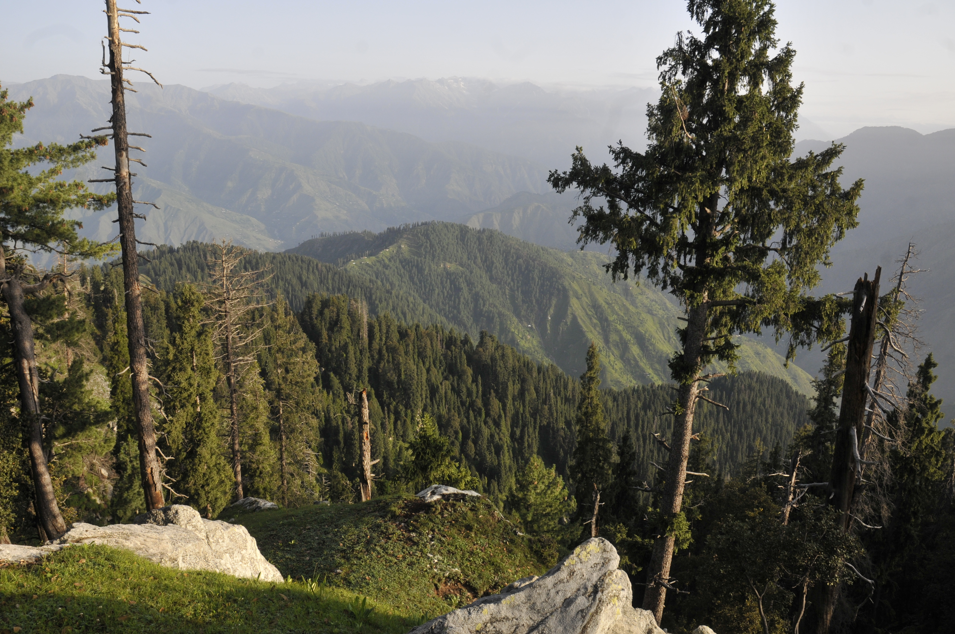 Miandam swat Valley